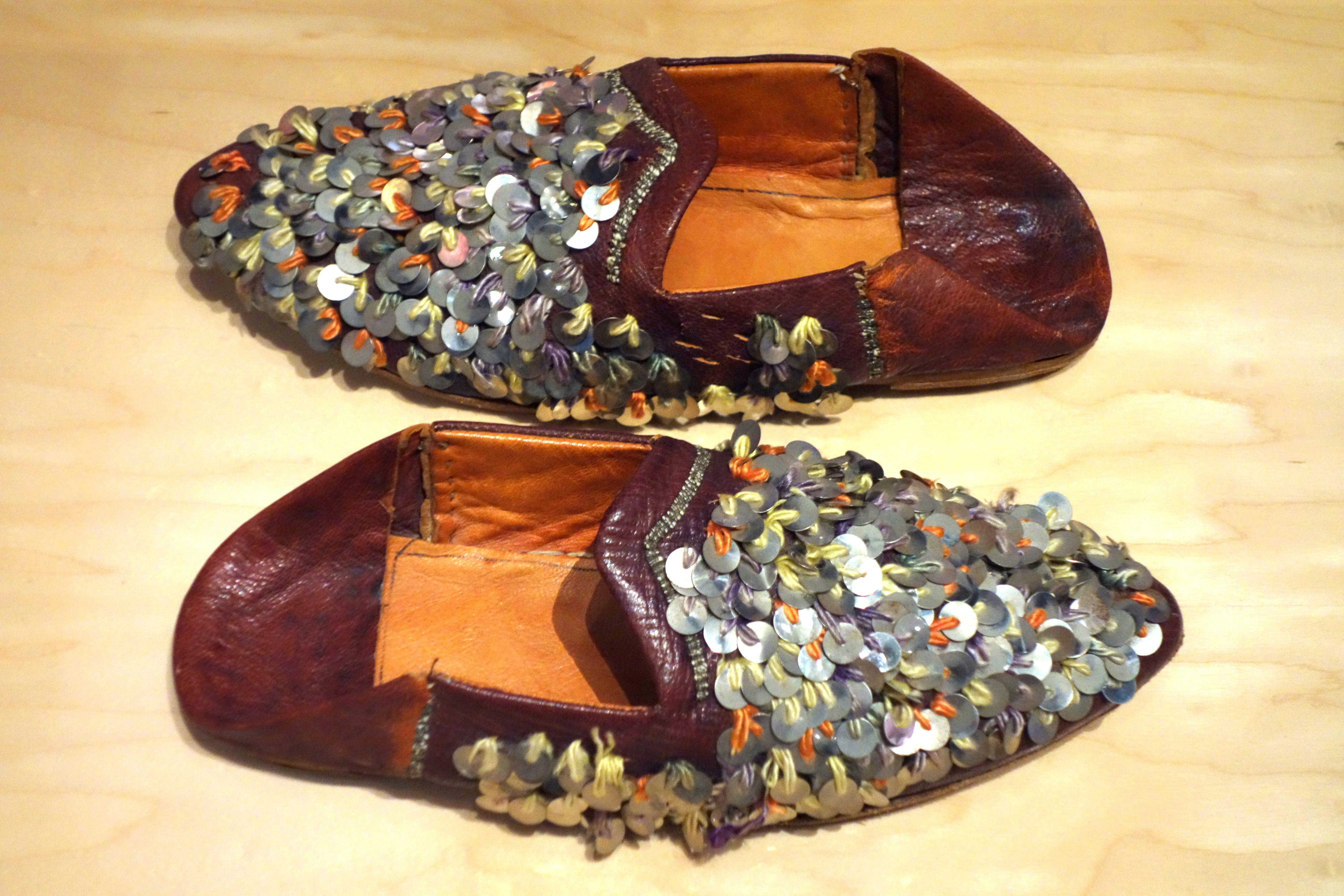 Exhibit in the Bata Shoe Museum, Toronto, Ontario, Canada. This item is old enough so that its design is in the public domain. The museum permitted photography without restriction.